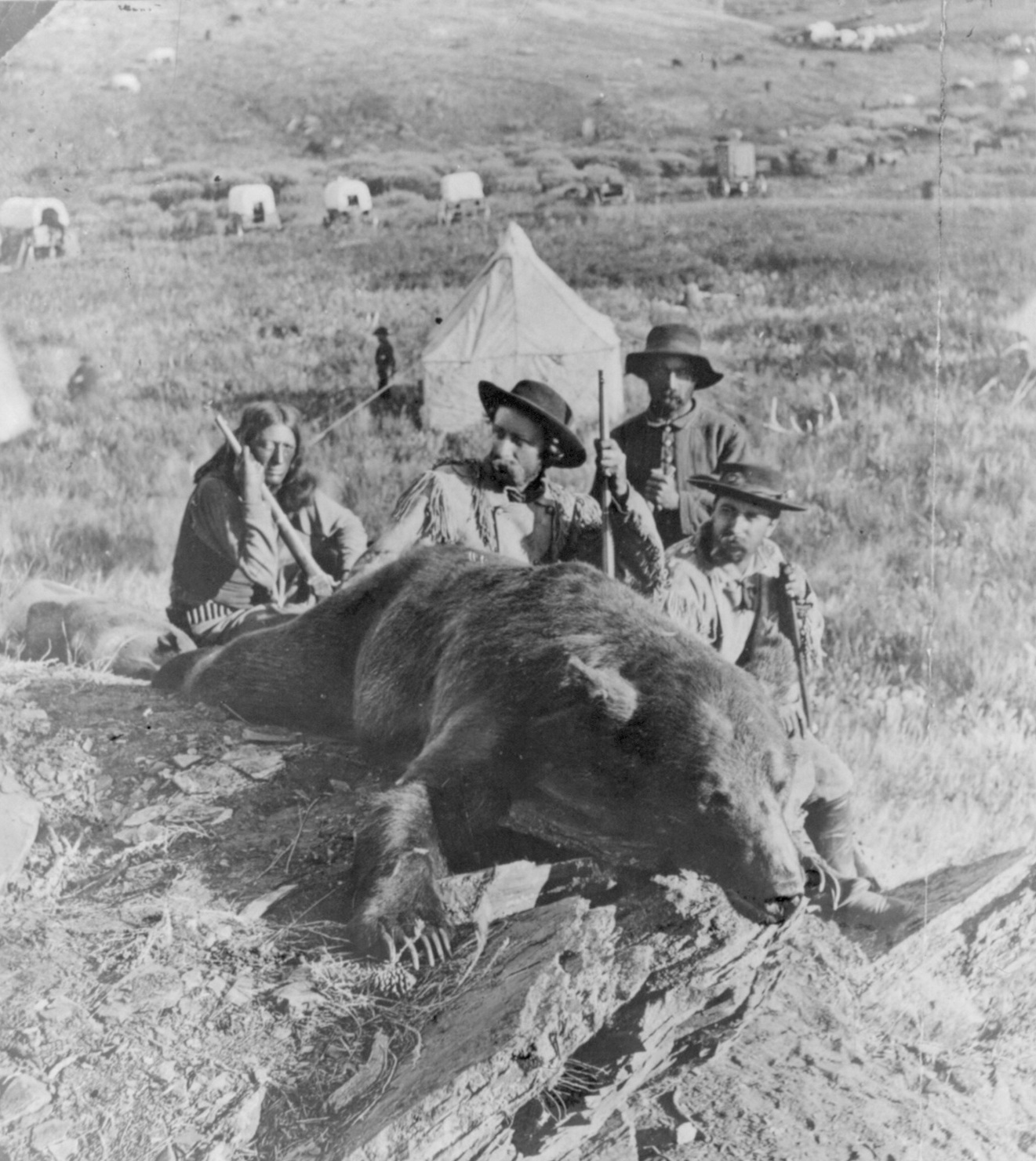 Detail of photograph of Arikara Indian scout Bloody Knife, Custer and Captain Ludlow during the Black Hills Expedition in 1874